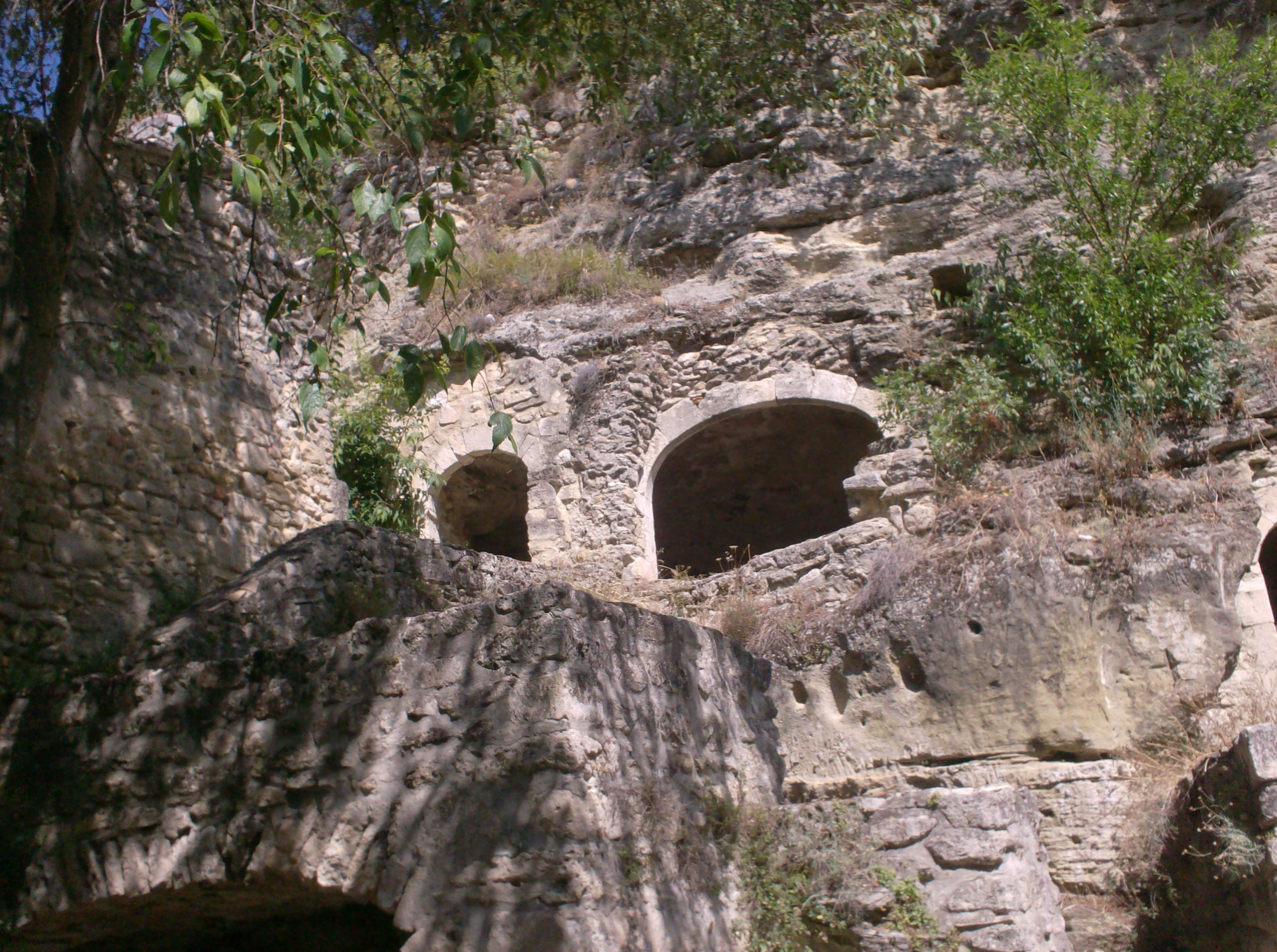 Barry troglodyte village, Bollène (Vaucluse, France)